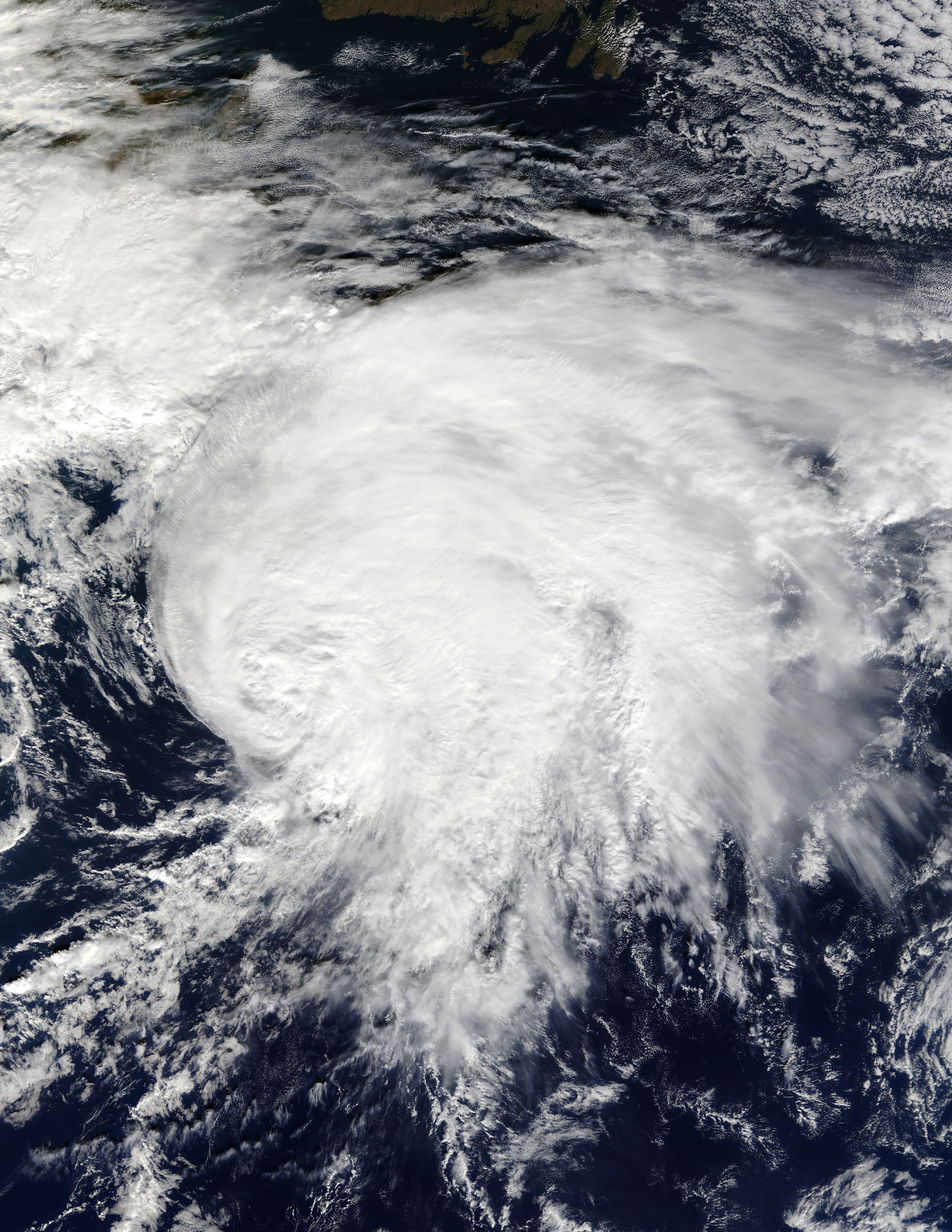 Hurricane Kate (12L) in the North Atlantic Ocean